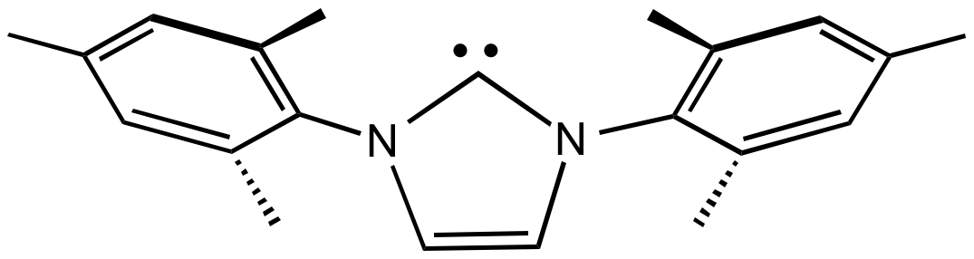 structure of a typical NHC